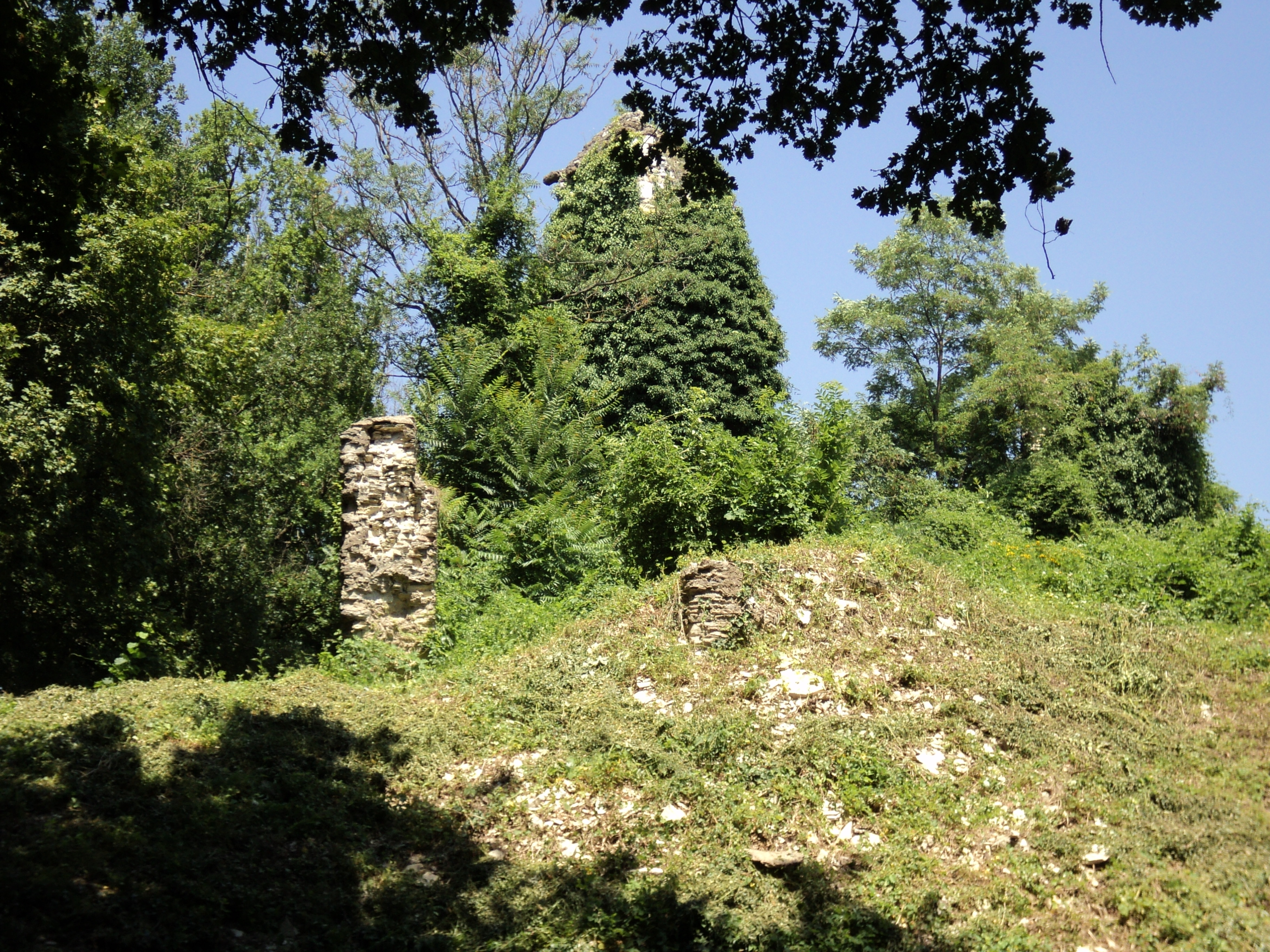 General view at the Susedgrad Castle.